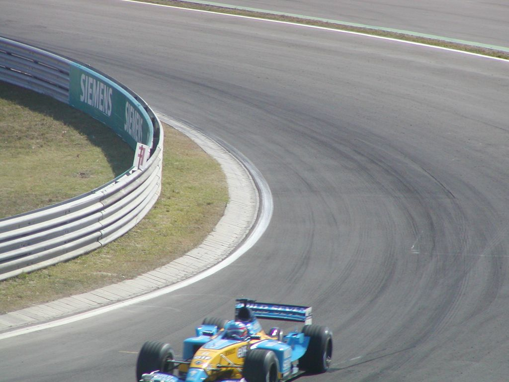 Fernando Alonso (Renault) in the last corner at the 2003 Hungarian Grand Prix.